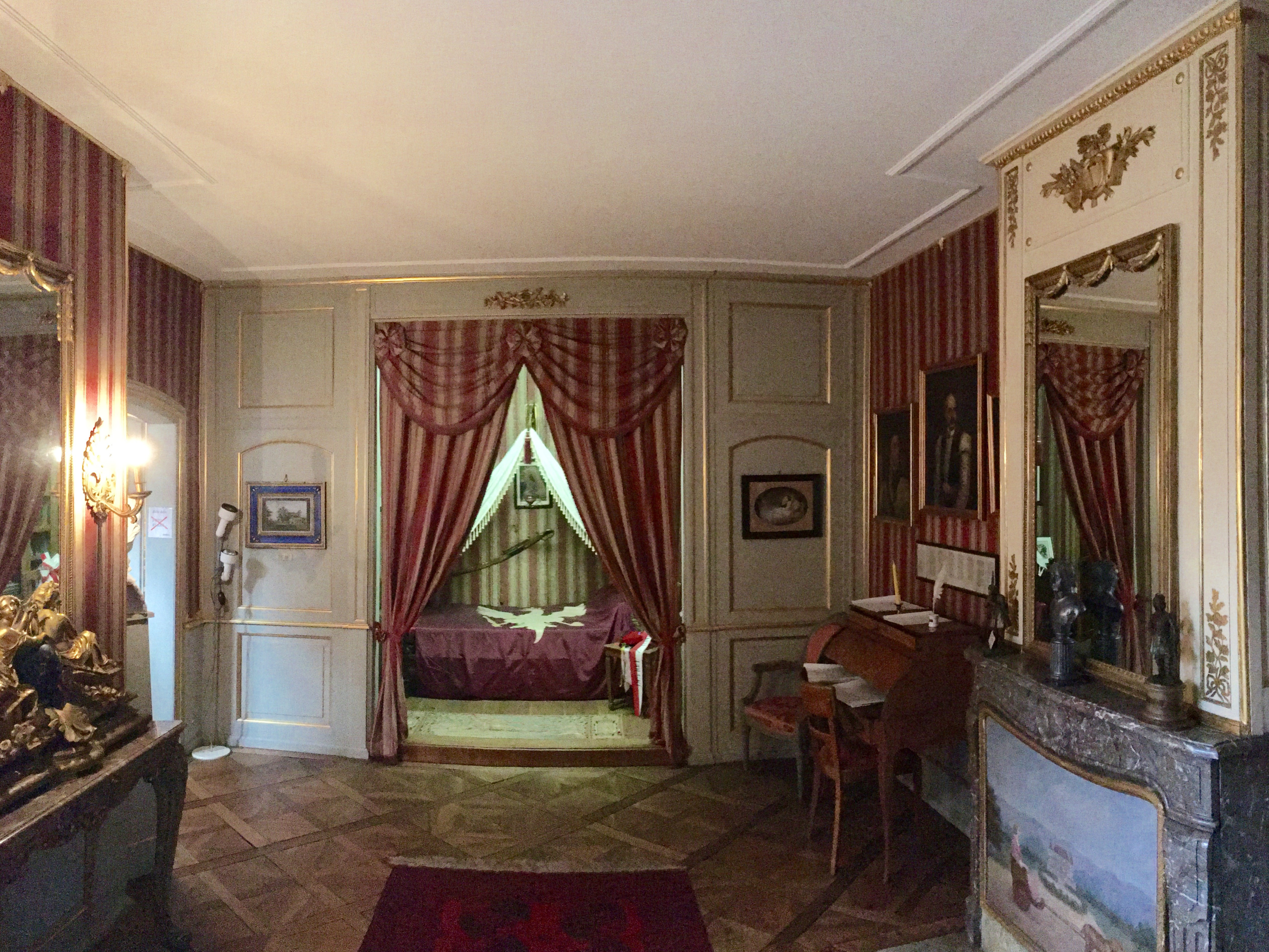 Interior of the house in Solothurn at Gurzelngasse 12, where Polish national hero Tadeusz Kosciuszko lived in exile in his last years, and died in 1817. The bedroom where he died is located next to the salon. The interior was reconstructed based on original drawings that are kept in Krakow.